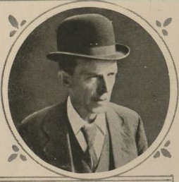 John William Ogden, President of the Northern Counties Amalgamated Association of Weavers